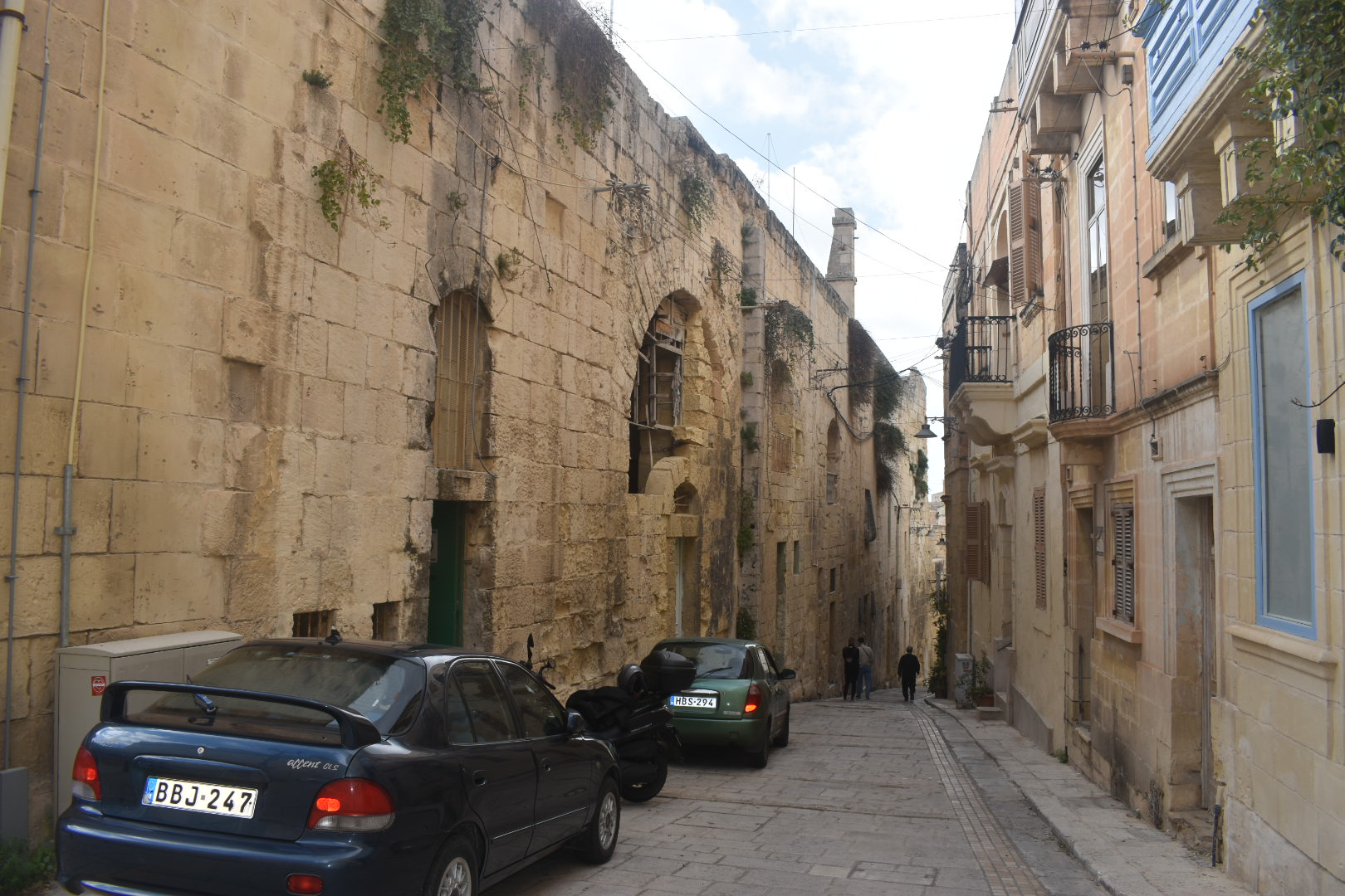 Site of the 1806 Birgu polverista explosion